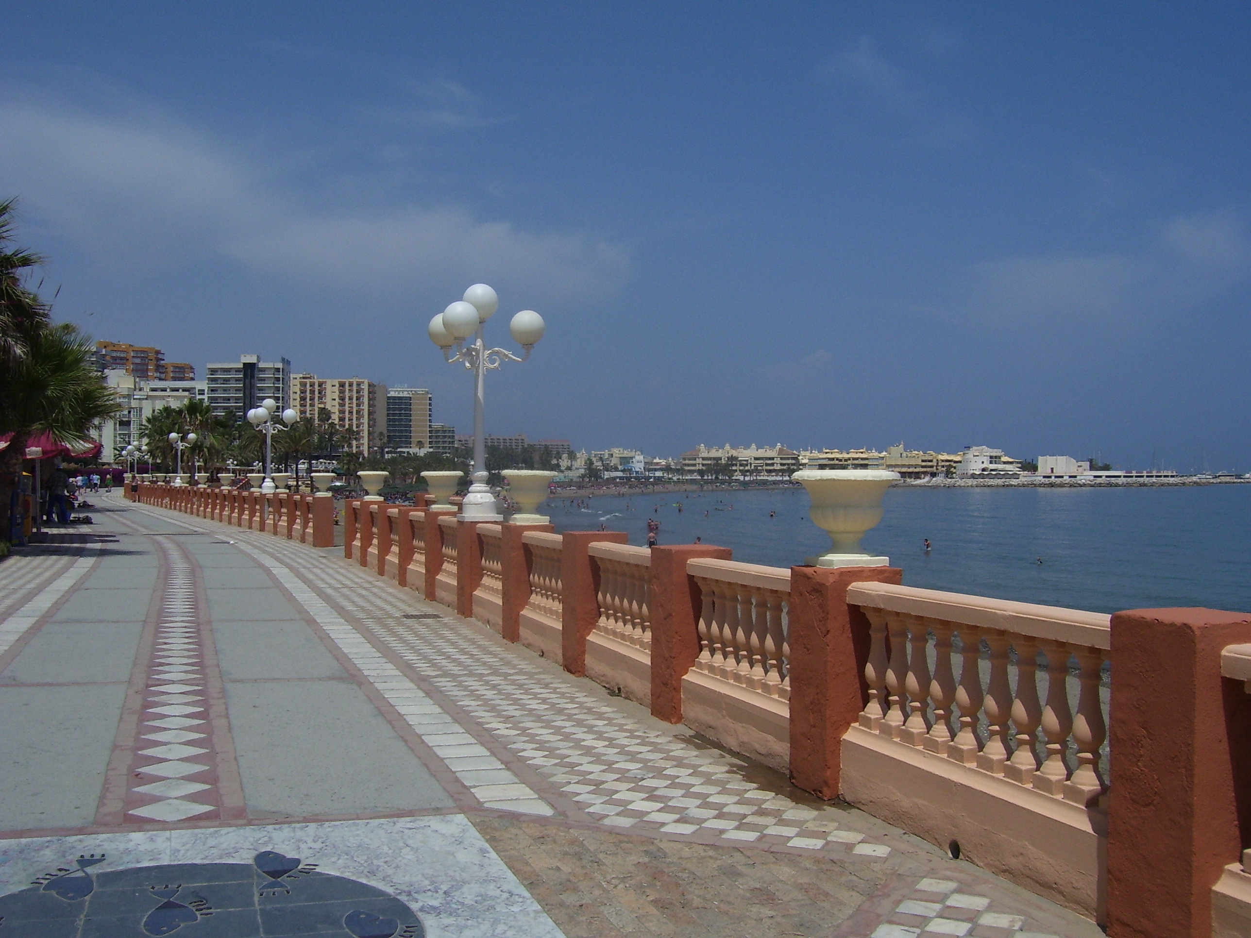 View of promenade along Benalmádena Costa